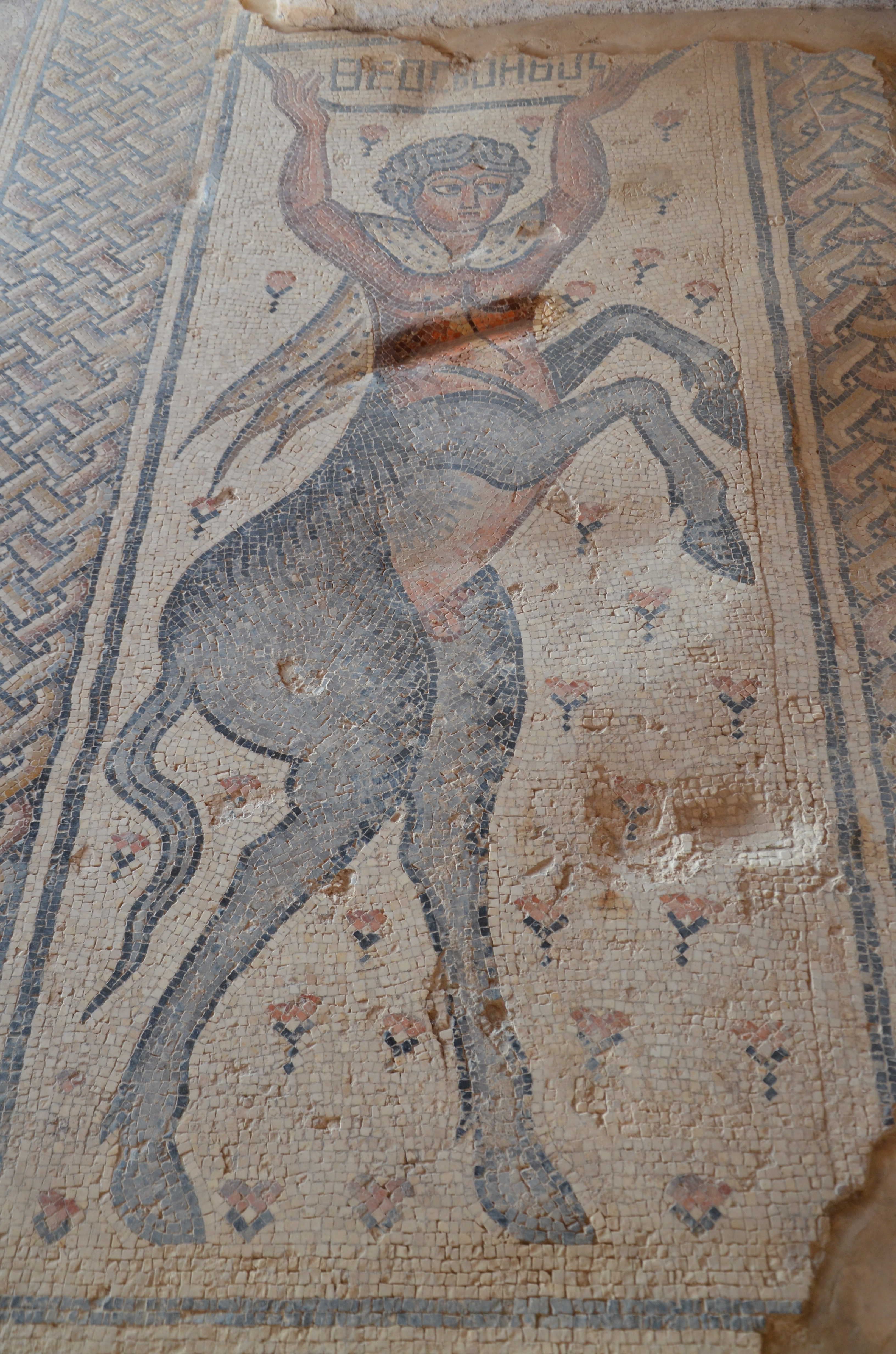 Sepphoris (Diocaesarea), Israel